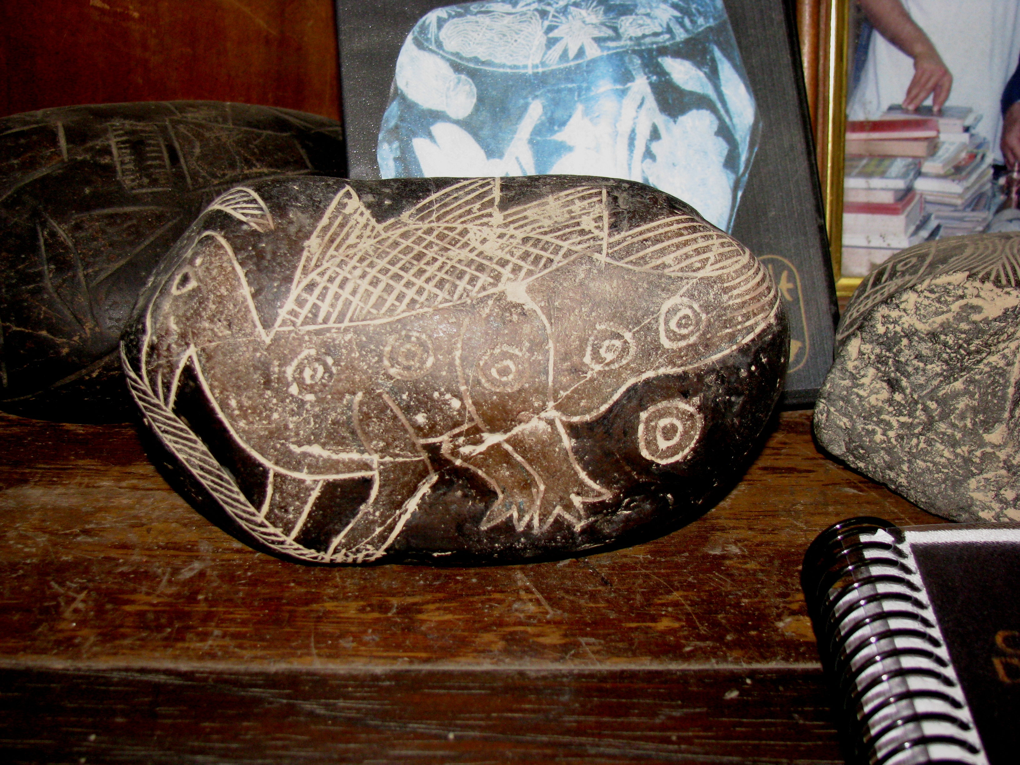 Ica stones